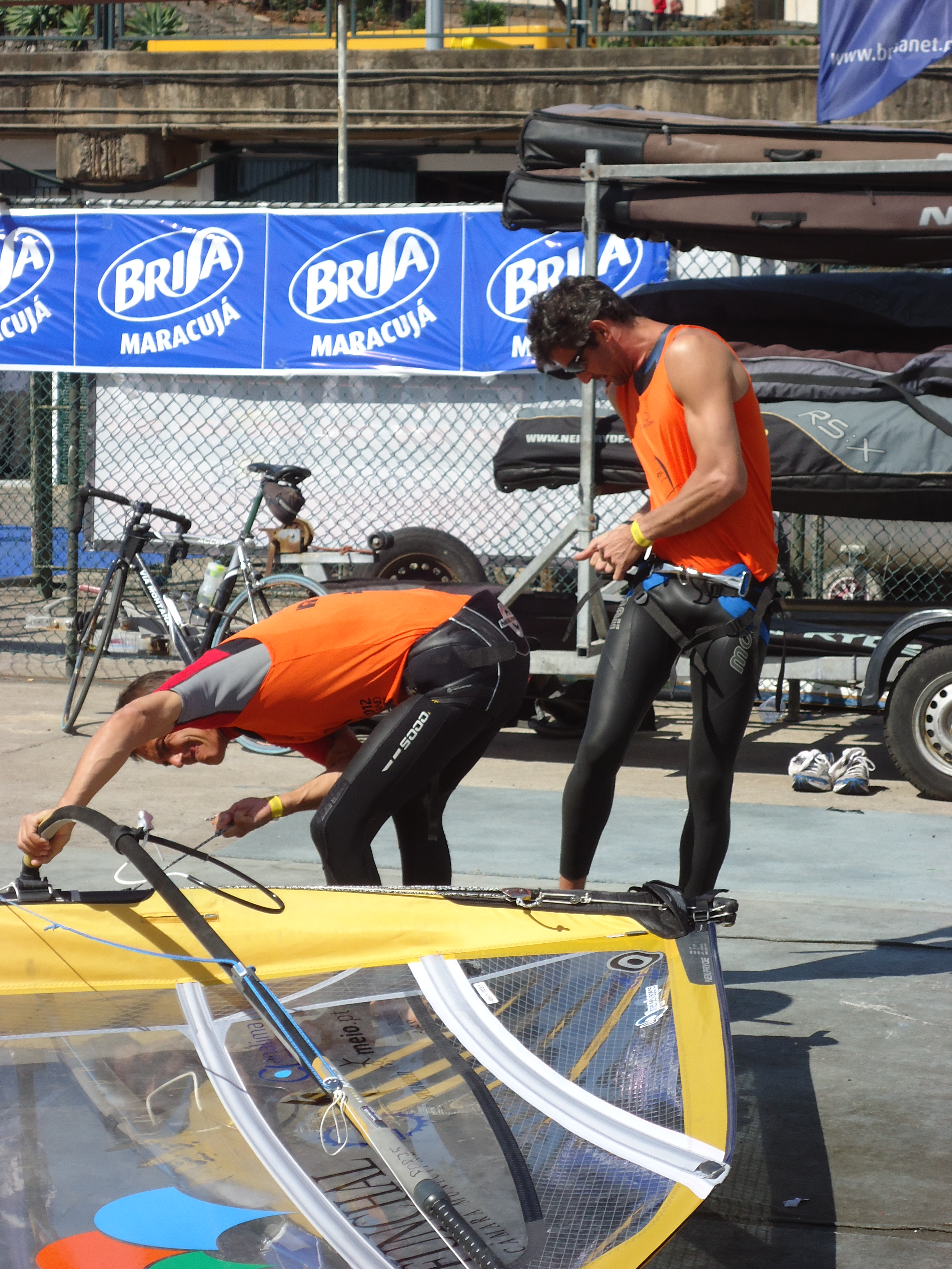 RS:X 2012 European Windsurfing Championship, Funchal, Madeira - Day 1 - Registration & Equipment Check / Practice Race SÃO LÁZARO WATER-SPORTS CENTER, Funchal, Madeira